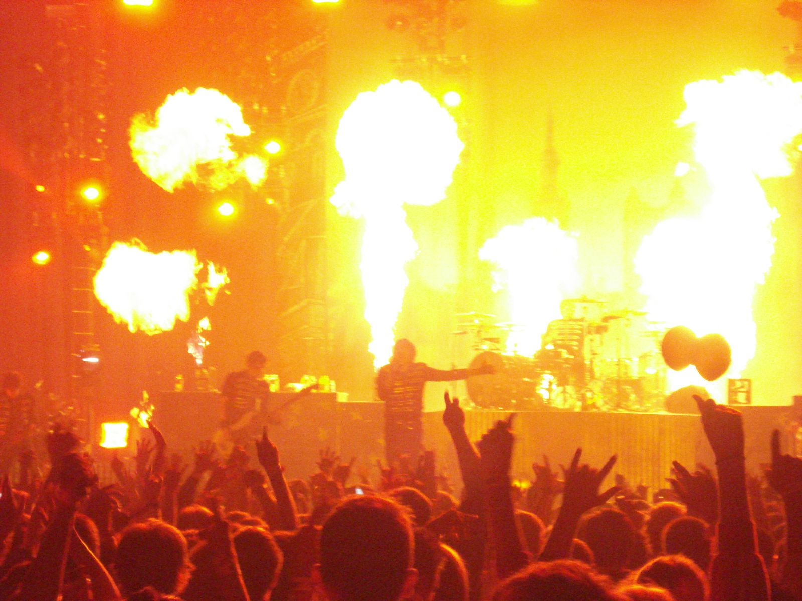 My Chemical Romance performing live with fire on the stage, probably while playing “Mama” or “Famous Last Words”.